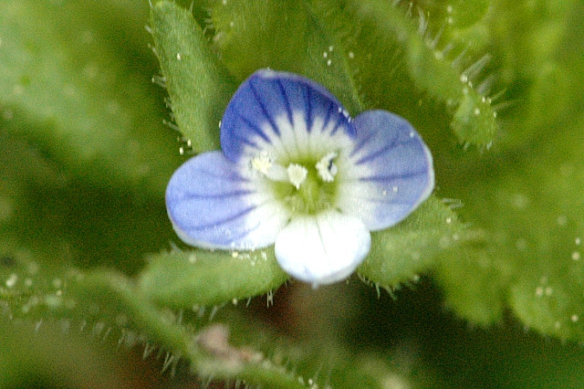 Veronica agrestis from Commanster, Belgian High Ardennes .